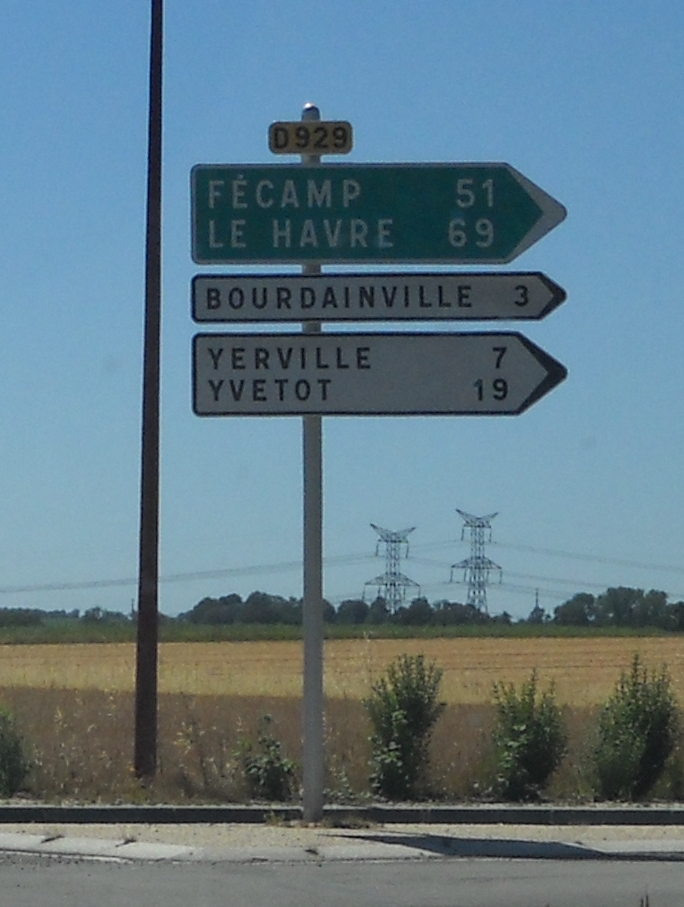 French road N29